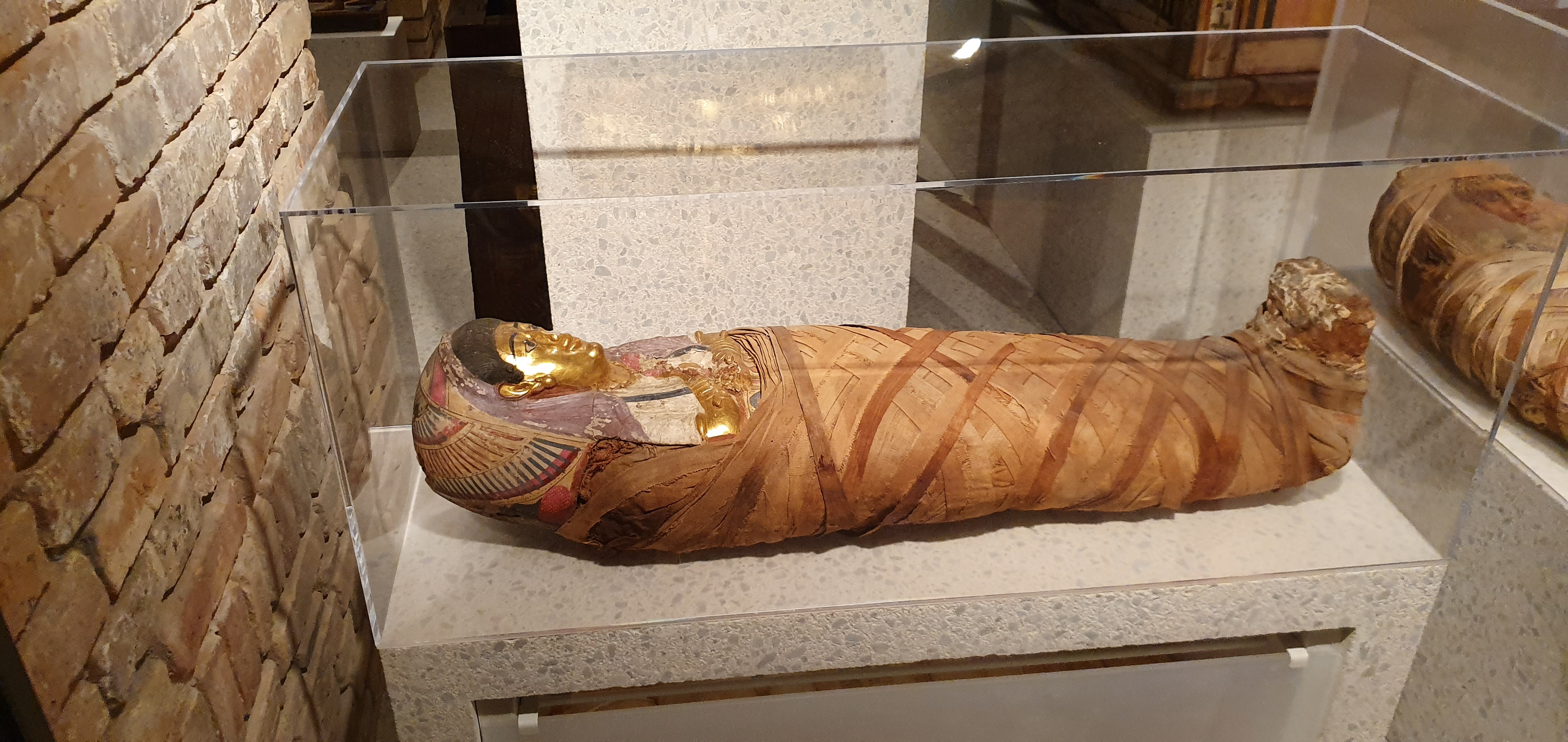 Egyptian mummies in Ägyptisches Museum Berlin